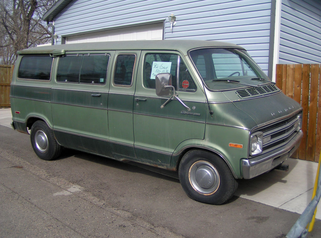 1974-1978 Dodge Sportsman